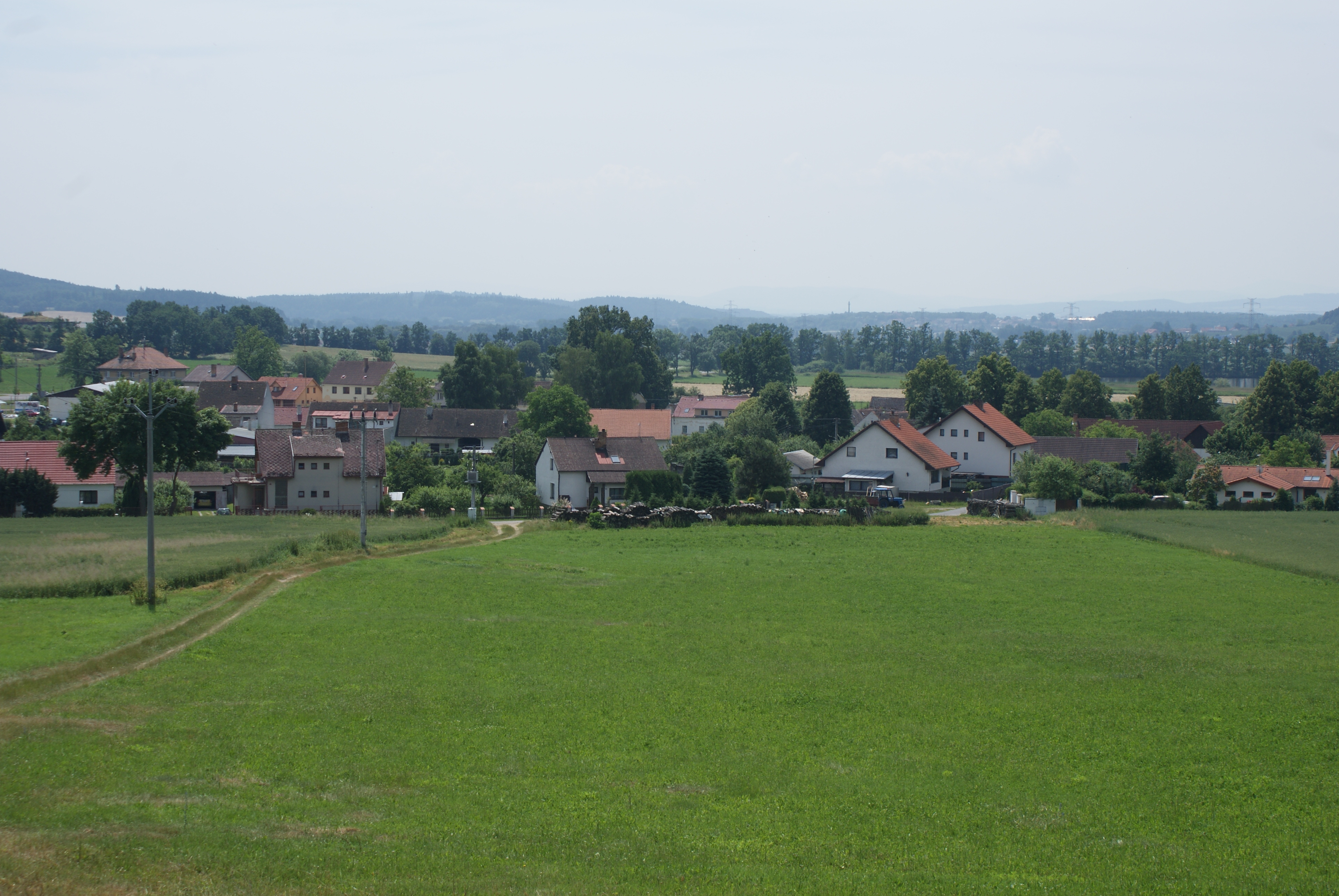 Tálín, a village in Písek district, Czech Republic, seen from a hill. Česky: Tálín, okres Písek, pohled z kopce